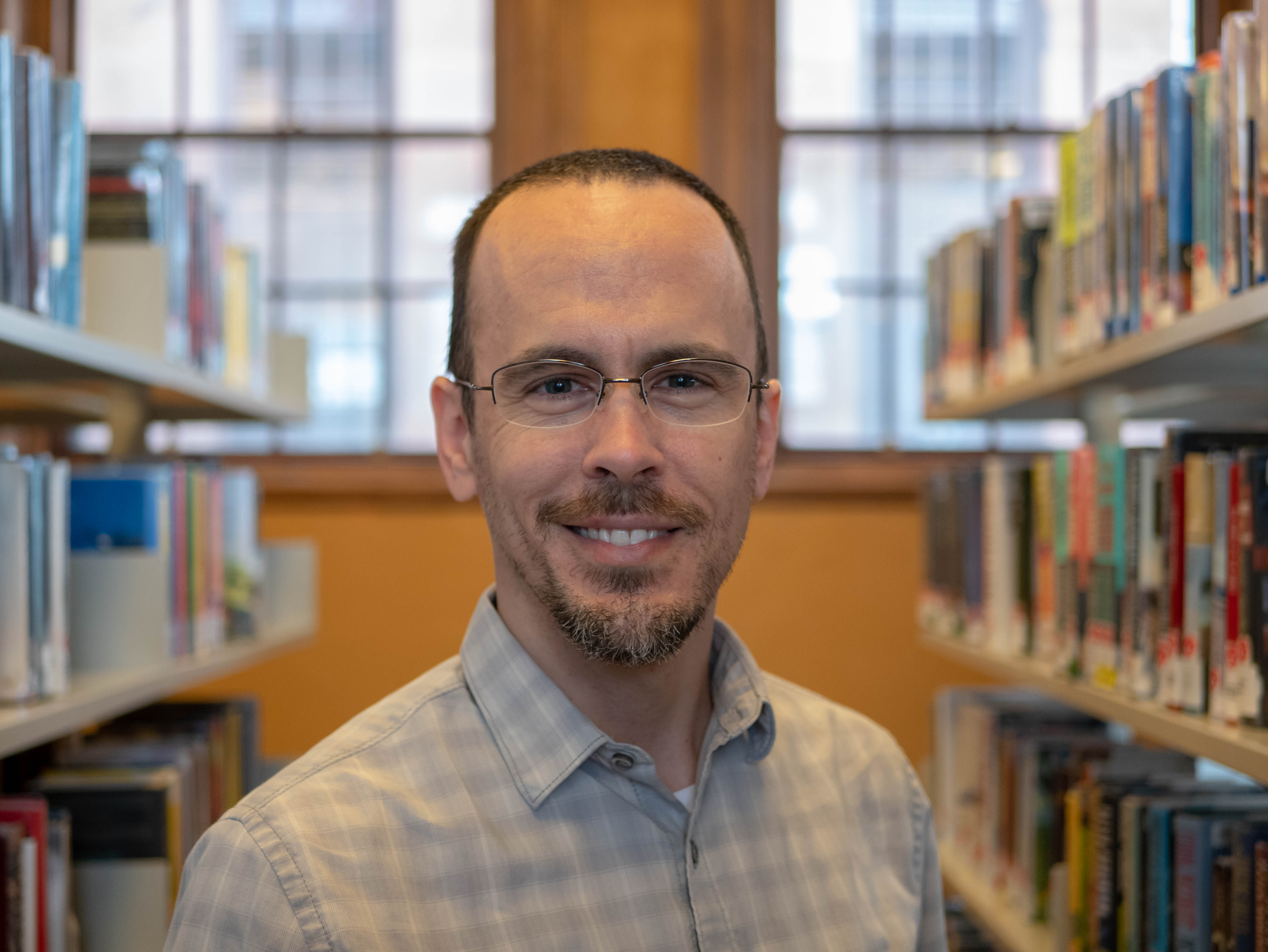 Portrait of Joseph Reagle in library in front of windows.